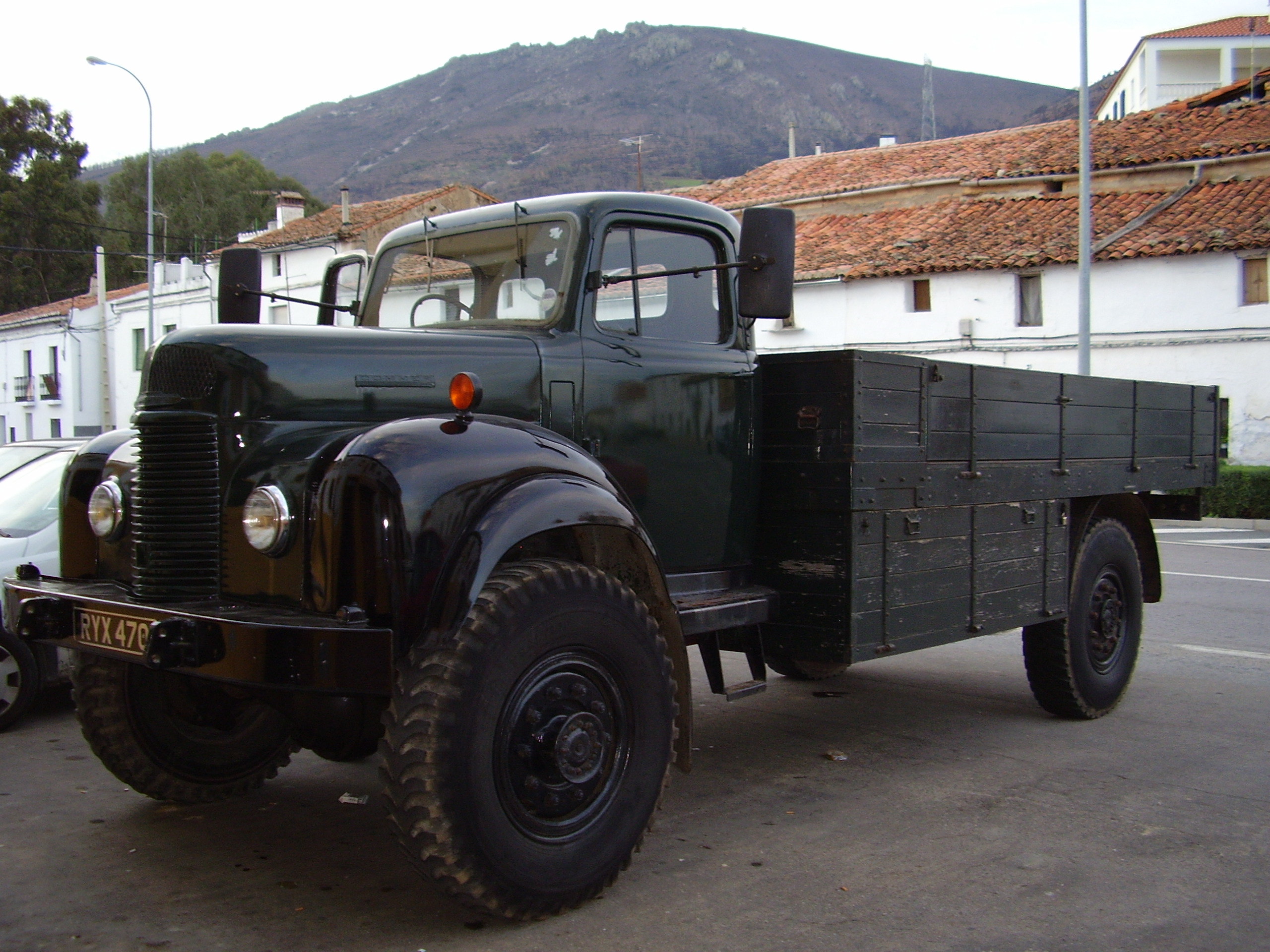 Normaly it is very easy to find it when parked.